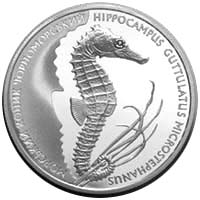 Coin of Ukraine